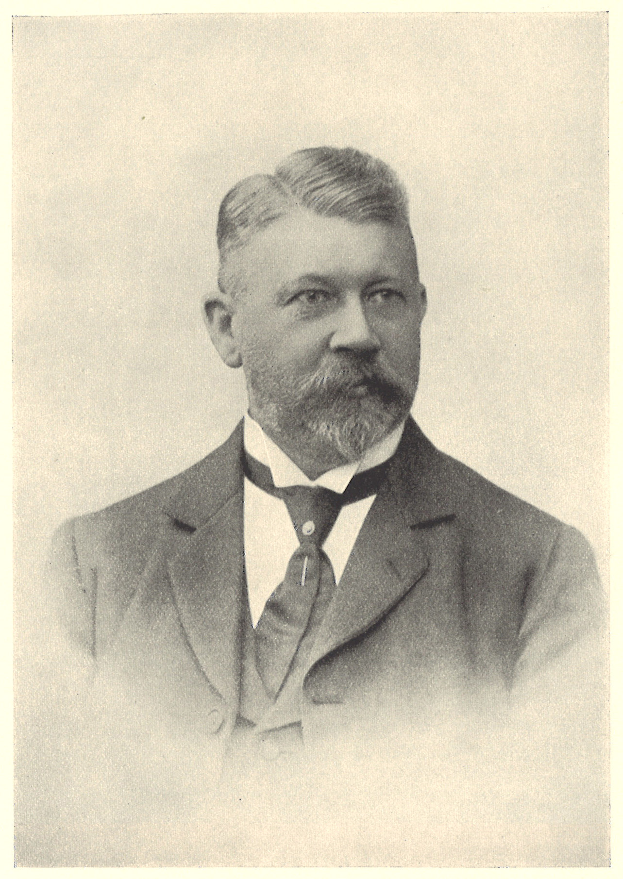 Jacob Larsson (1851-1940), Swedish jurist, lawyer and politician; minister of naval defence 1911-1914.